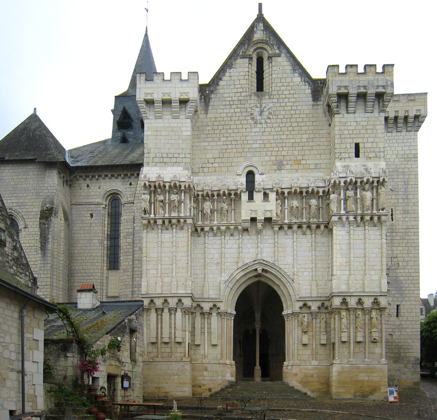 Church of Saint-Martin, situated in the village of Candes-Saint-Martin near Tours in France